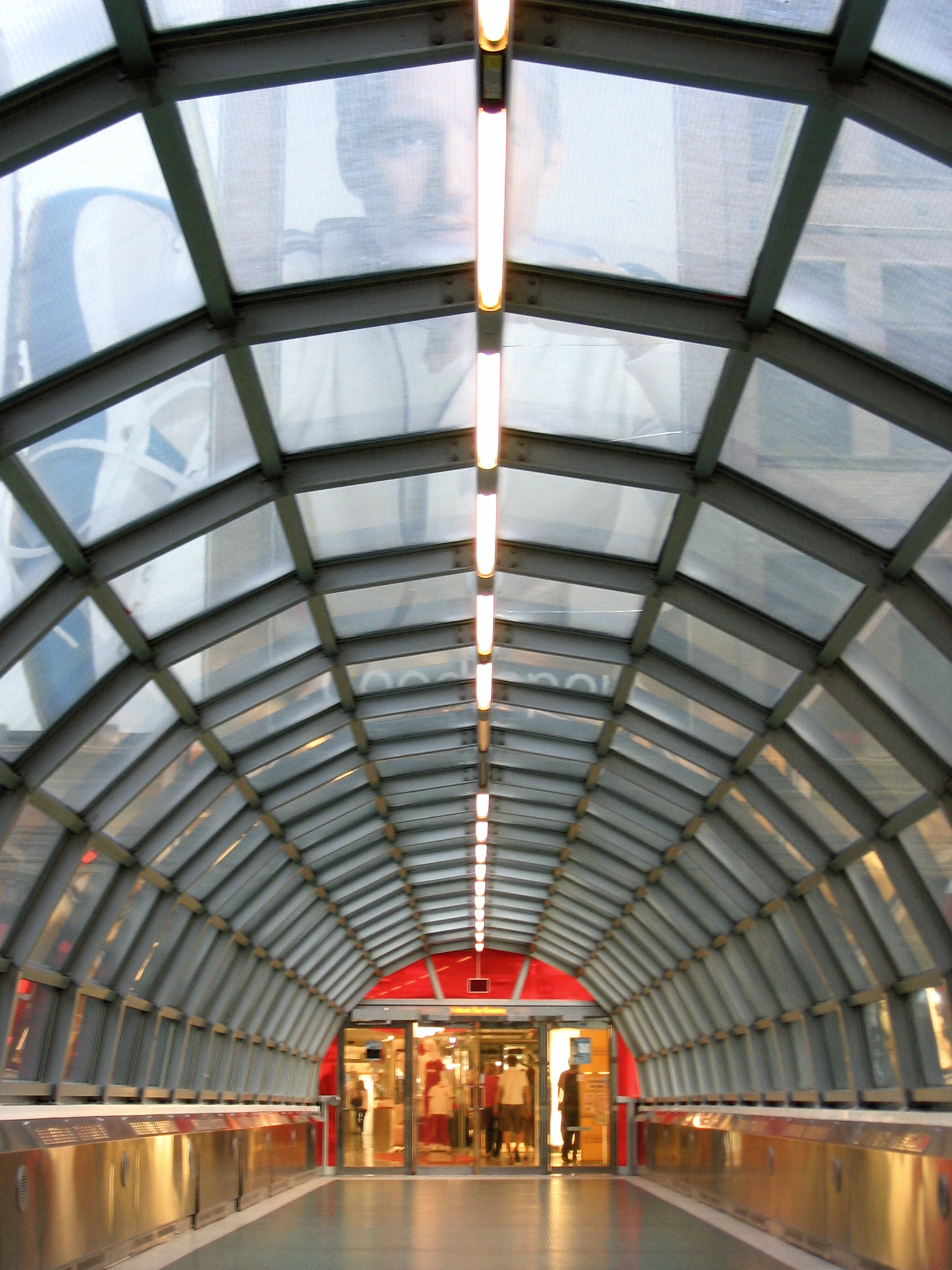 The skywalk connecting the Toronto Eaton Centre (site of the former Eaton's Main Store) and the Hudson's Bay Company department store (formerly Simpson's). Before the construction of the skywalk, there was time when the pedestrian crossing at grade at this location was one of the busiest in Canada, with shoppers travelling between the flagship stores of Canada's (then) two great department store chains.follow me